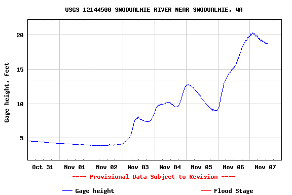 Pineapple Express flood, river height gageUSGS 12144500 Snoqualmie River near Snoqualmie, Washington